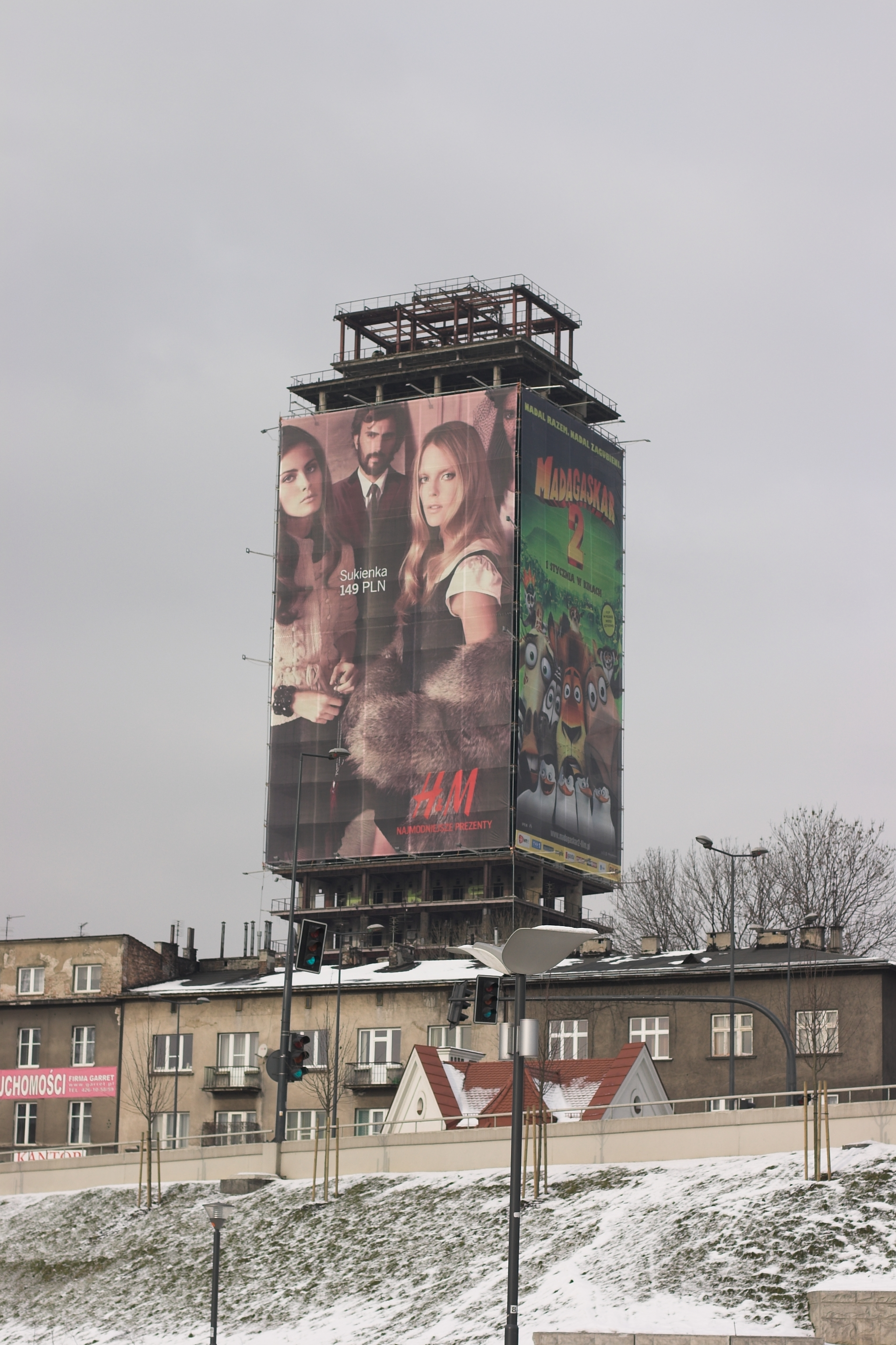 Unfinished high-rise building "Szkieletor" (aka "Biurowiec NOT", "Wyżowiec NOT") in Krakow, Poland.